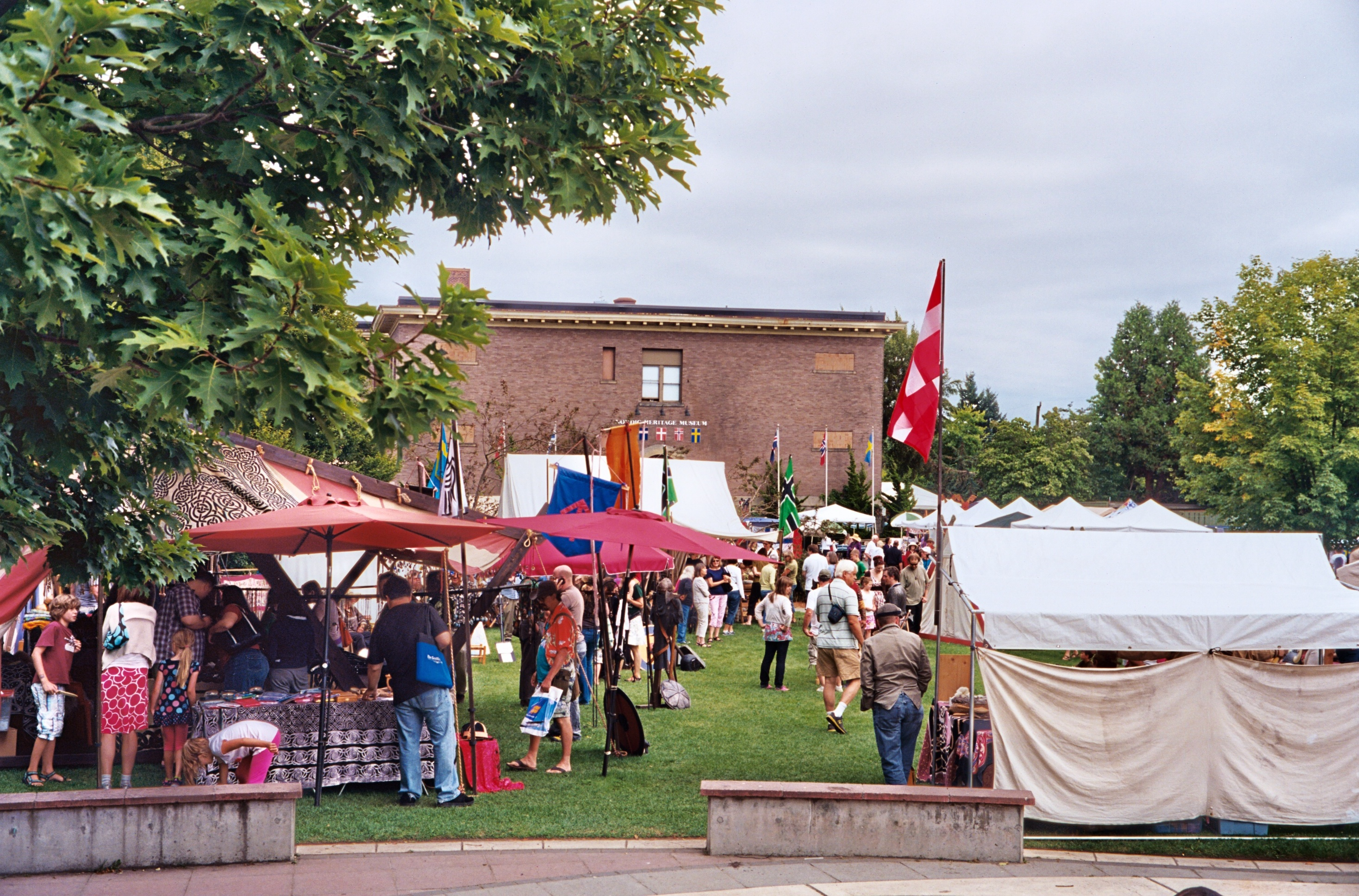 Vendors at Viking Days at Nordict Heritage Museum